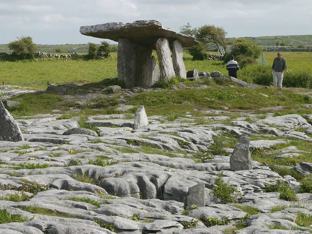 PD photo from those nice guys at . .